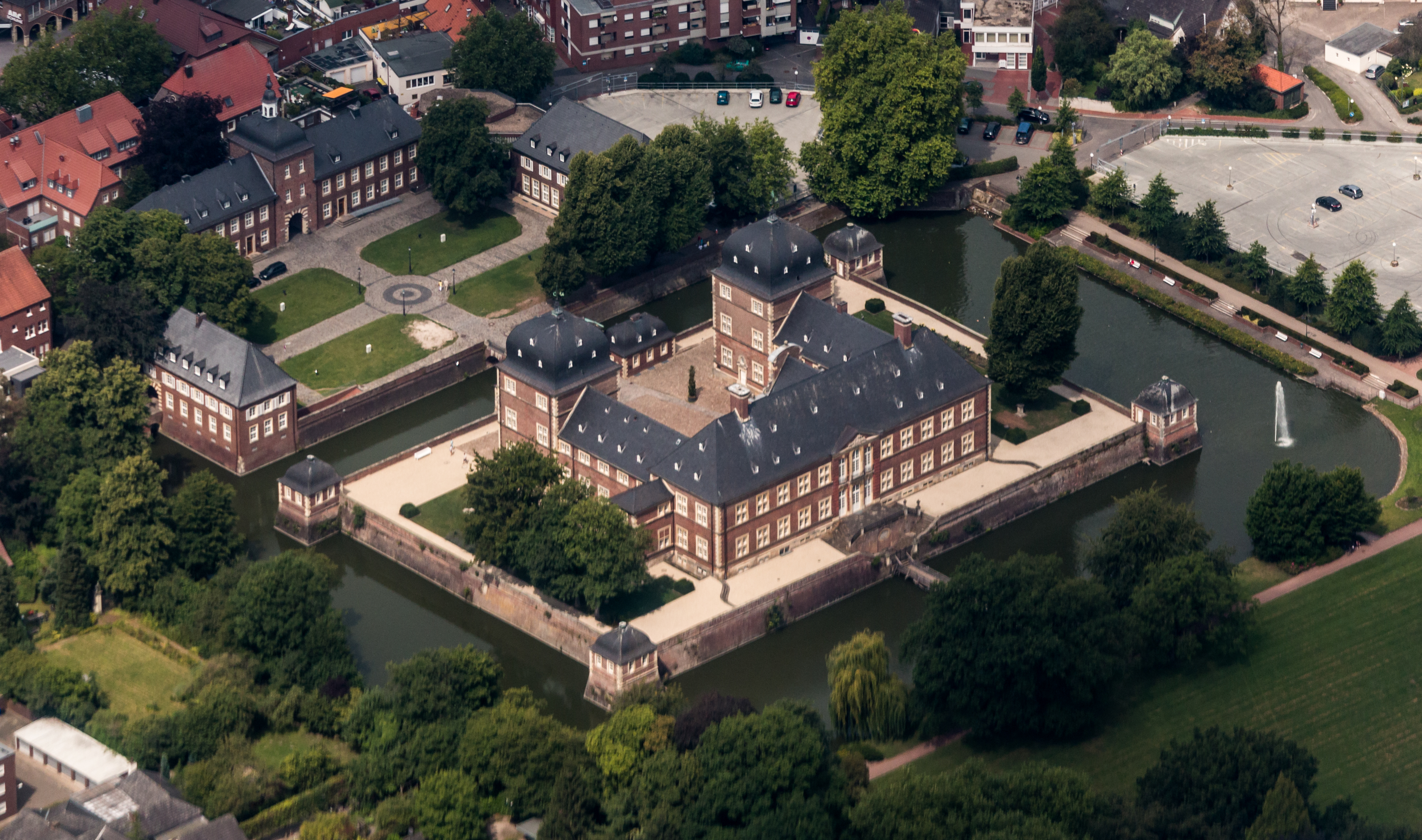 Ahaus Castle, Ahaus, North Rhine-Westphalia, Germany